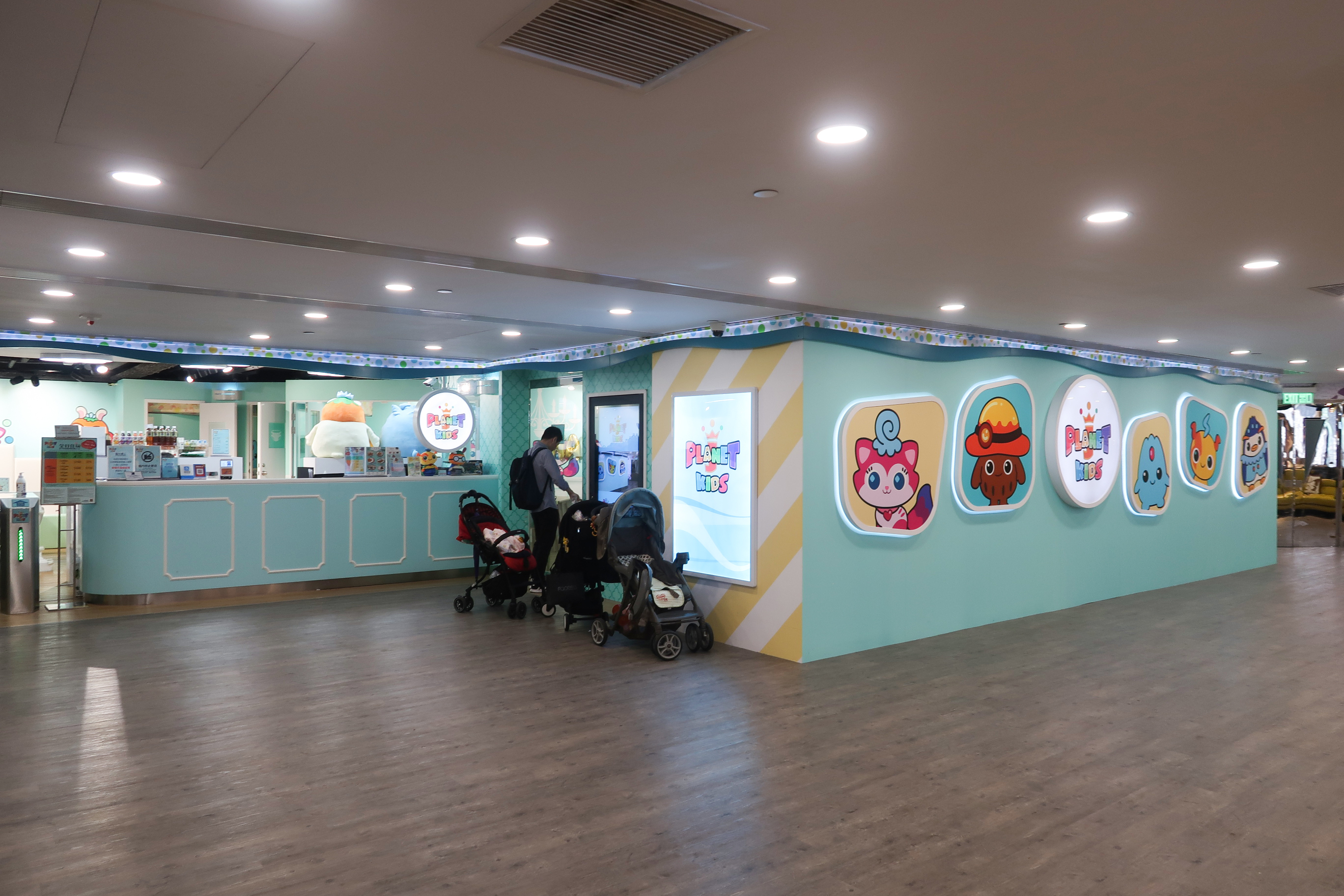 Planet Kids in Windsor House